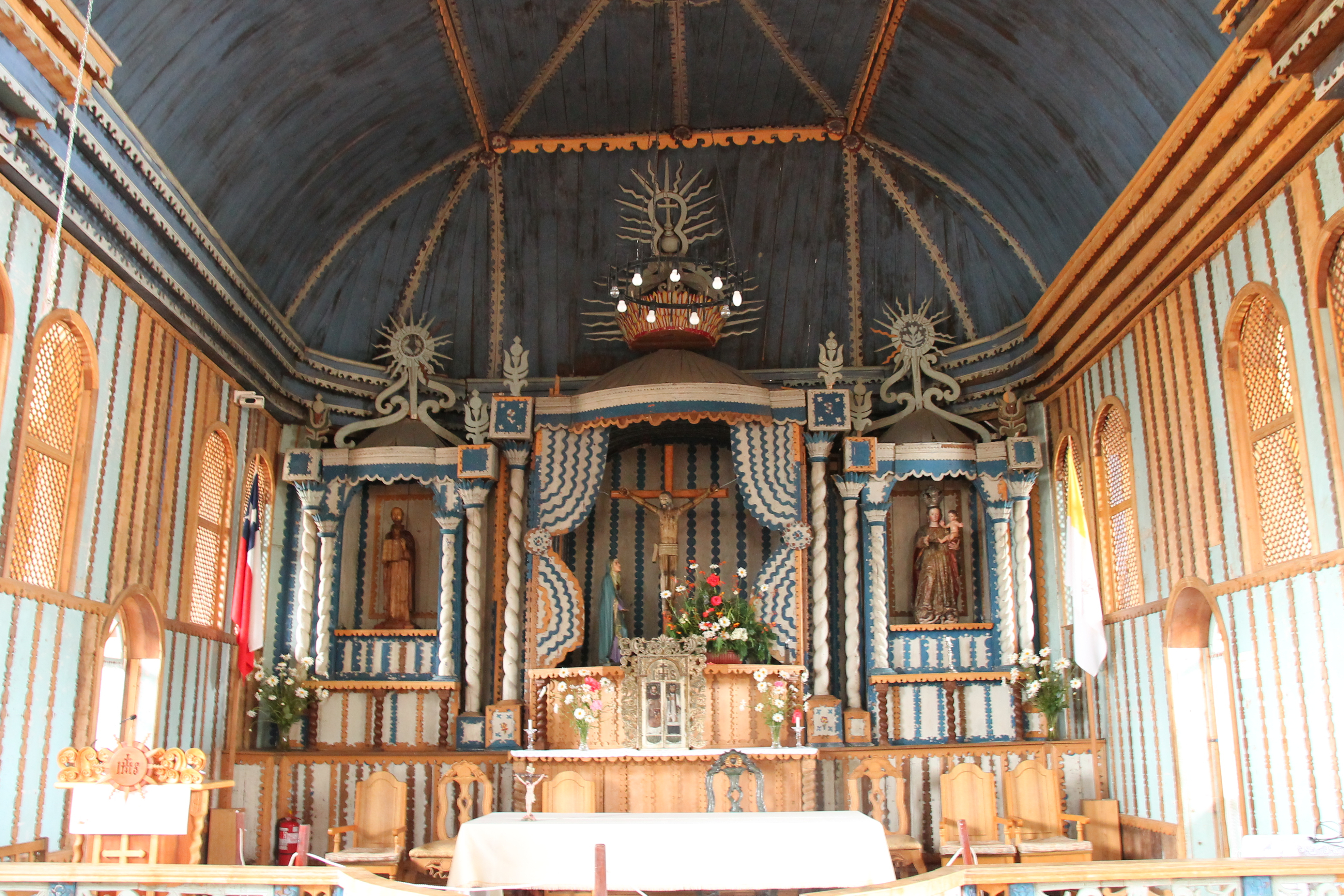 Our Lady of Loreto Church, Achao, Quinchao Island